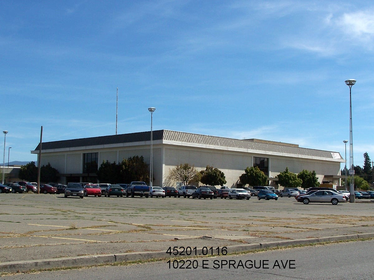 Former site of The Crescents department store, University City Shoppingi Center, Spokane.jpg